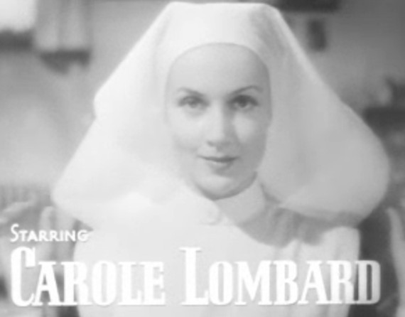 Cropped screenshot of Carole Lombard from the trailer for the film Vigil in the Night